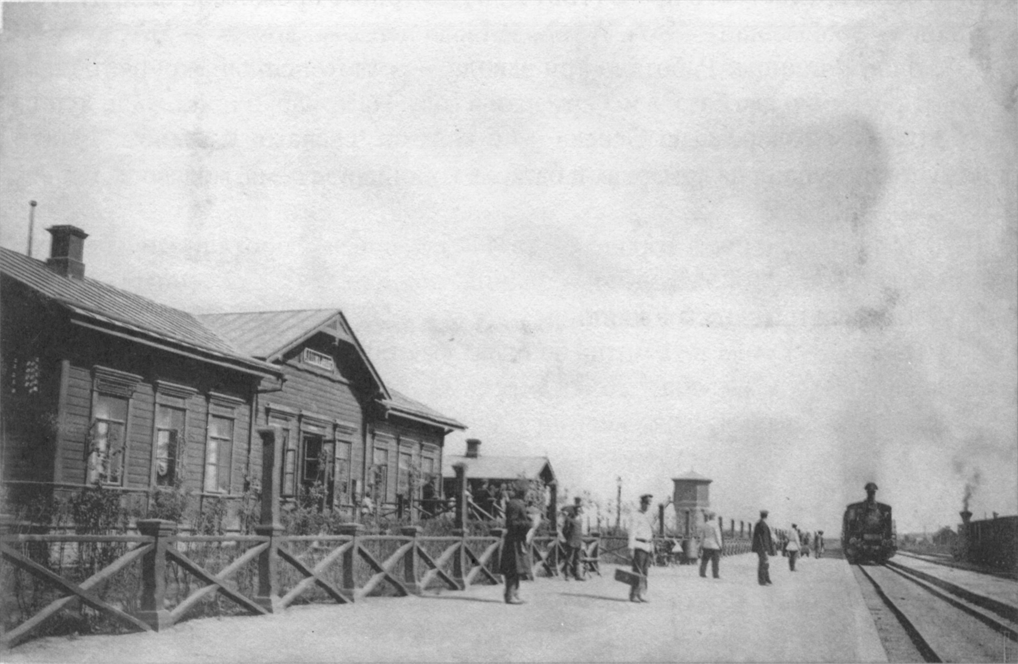 Dmitriev (Dmitriev-Lgovsky) Train Station (Bryansk — Lgov line of Мoscow-Kiev-Voronezh Railway) in the begining of XX century. Arrival of Grand Duke Michael Alexandrovich of Russia to Dmitriev.